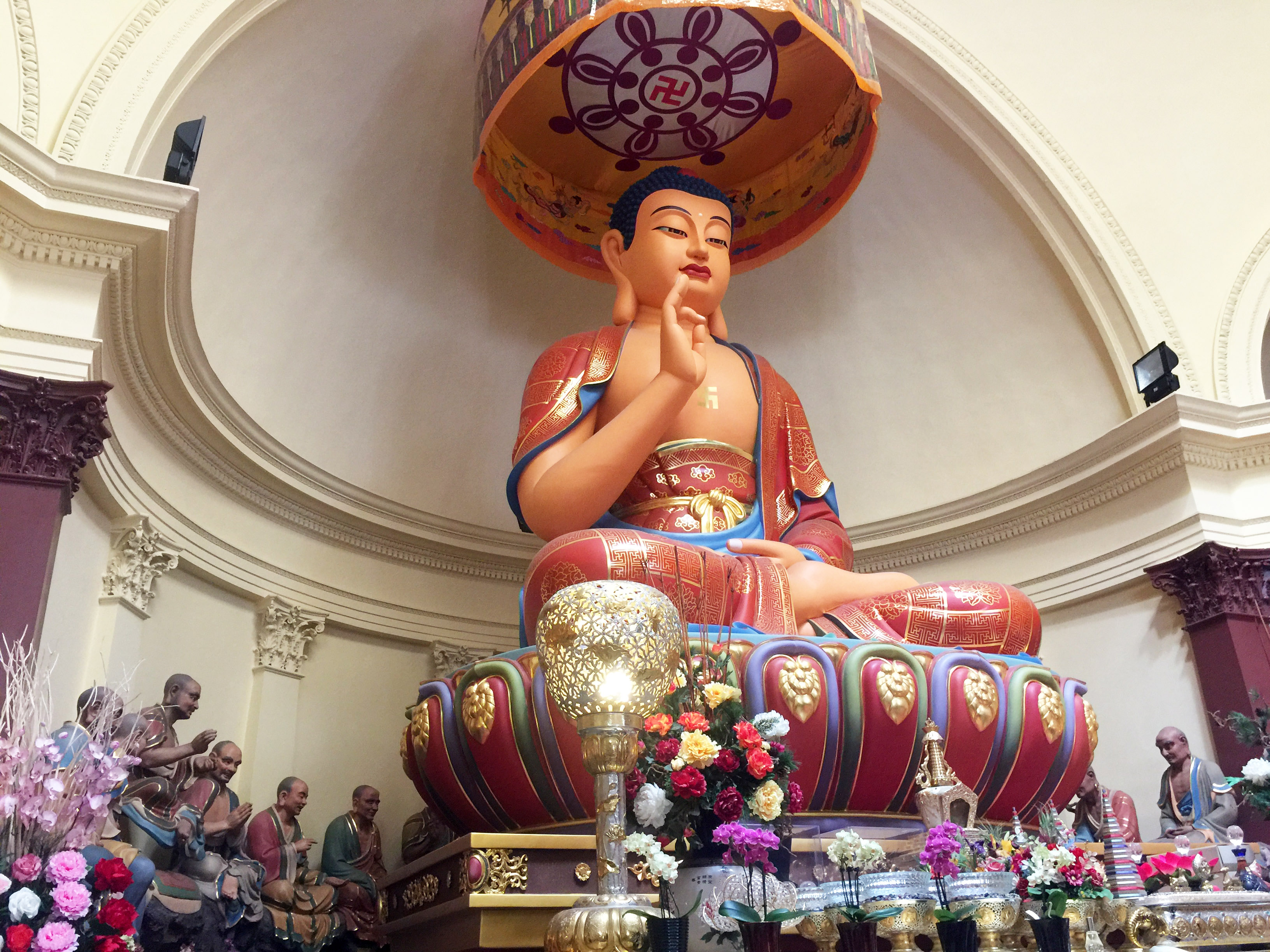 The statue of Sakyamuni Buddha, Macang Monastery, San Francisco